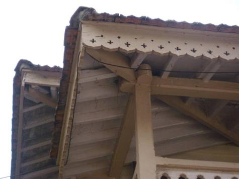 Khotachiwadi - Architectural details